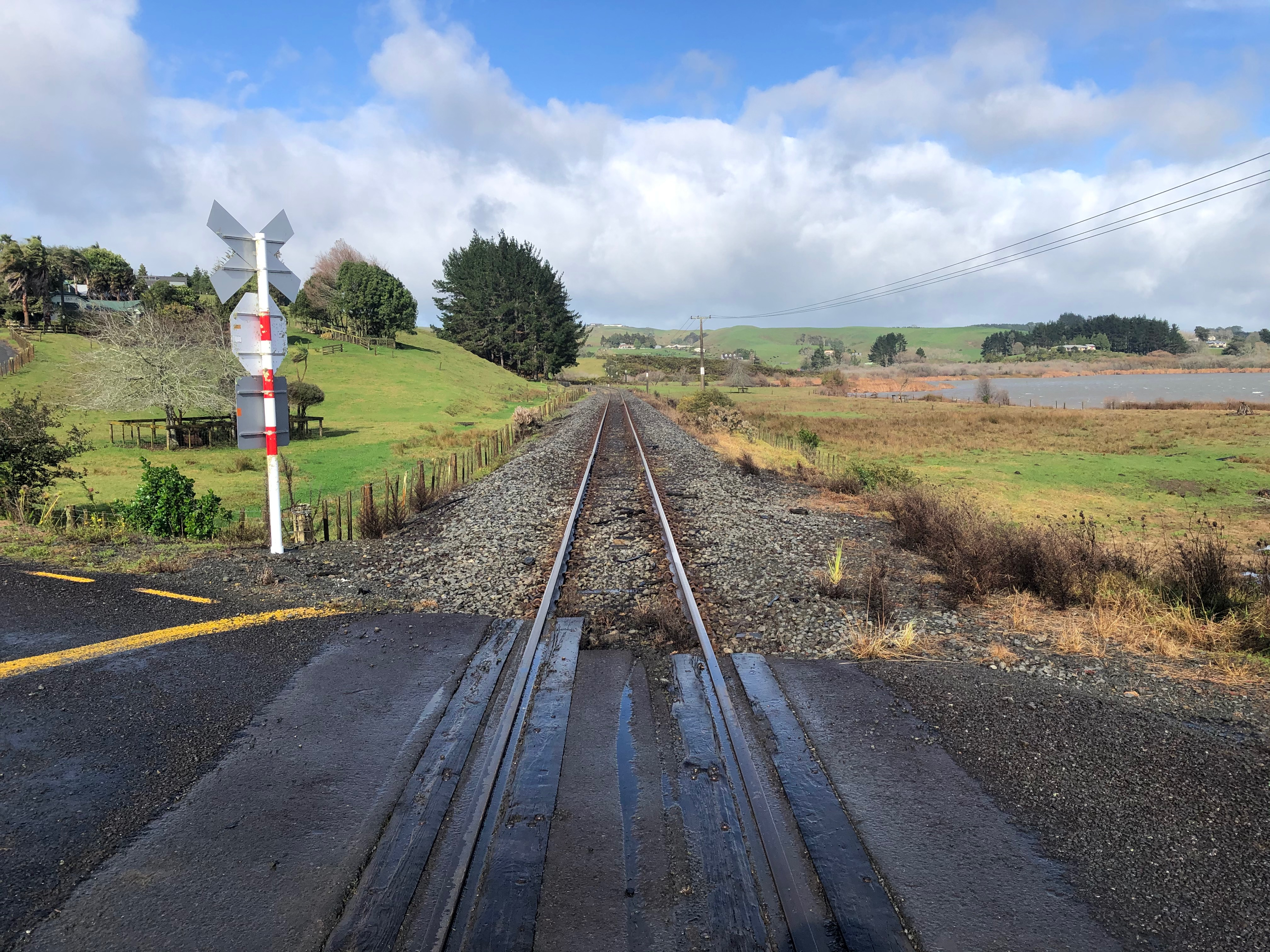 Weavers Crossing, Glen Afton branch. The railway station used to be on the other side of the crossing